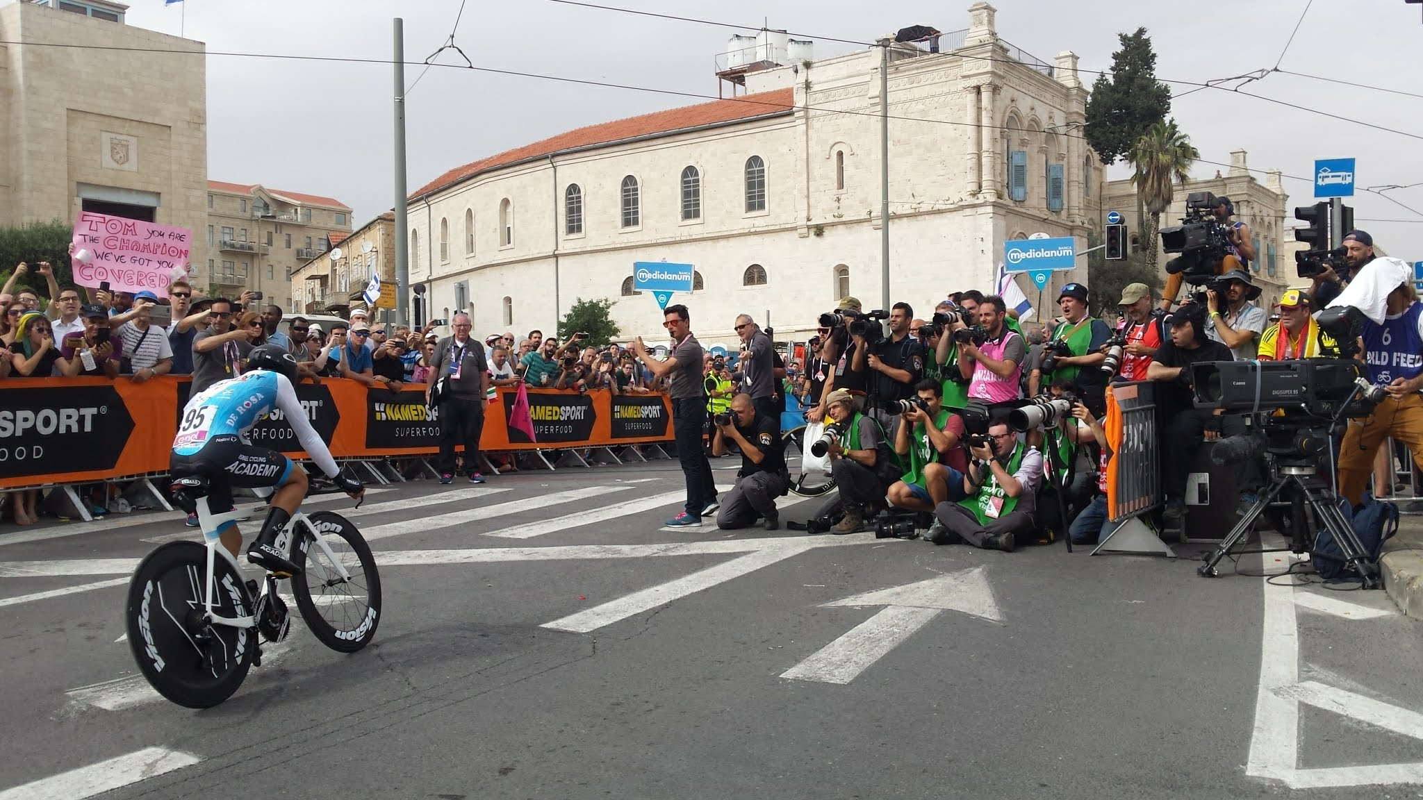 Giro d'Italia 2018 - Stage 1 (Jerusalem). Guy Niv